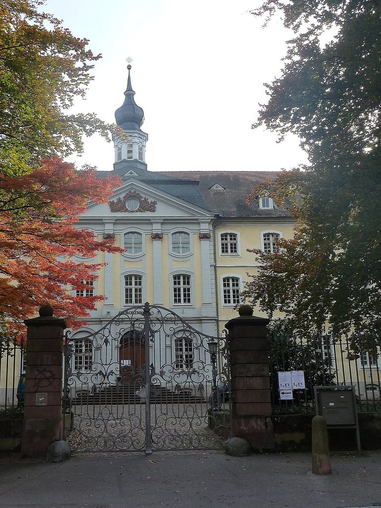 Seminarium Carolinum built in Heidelberg by the Court Architect Rabialatti from 1750 to 1765. Former Barracks of 110th Grenadiers ("Kaisergrenadiere")